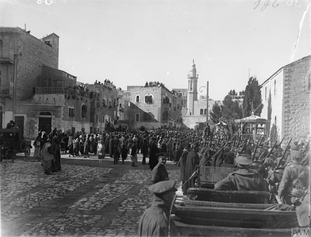 4th Sussex Regiment marching through Bethlehem.